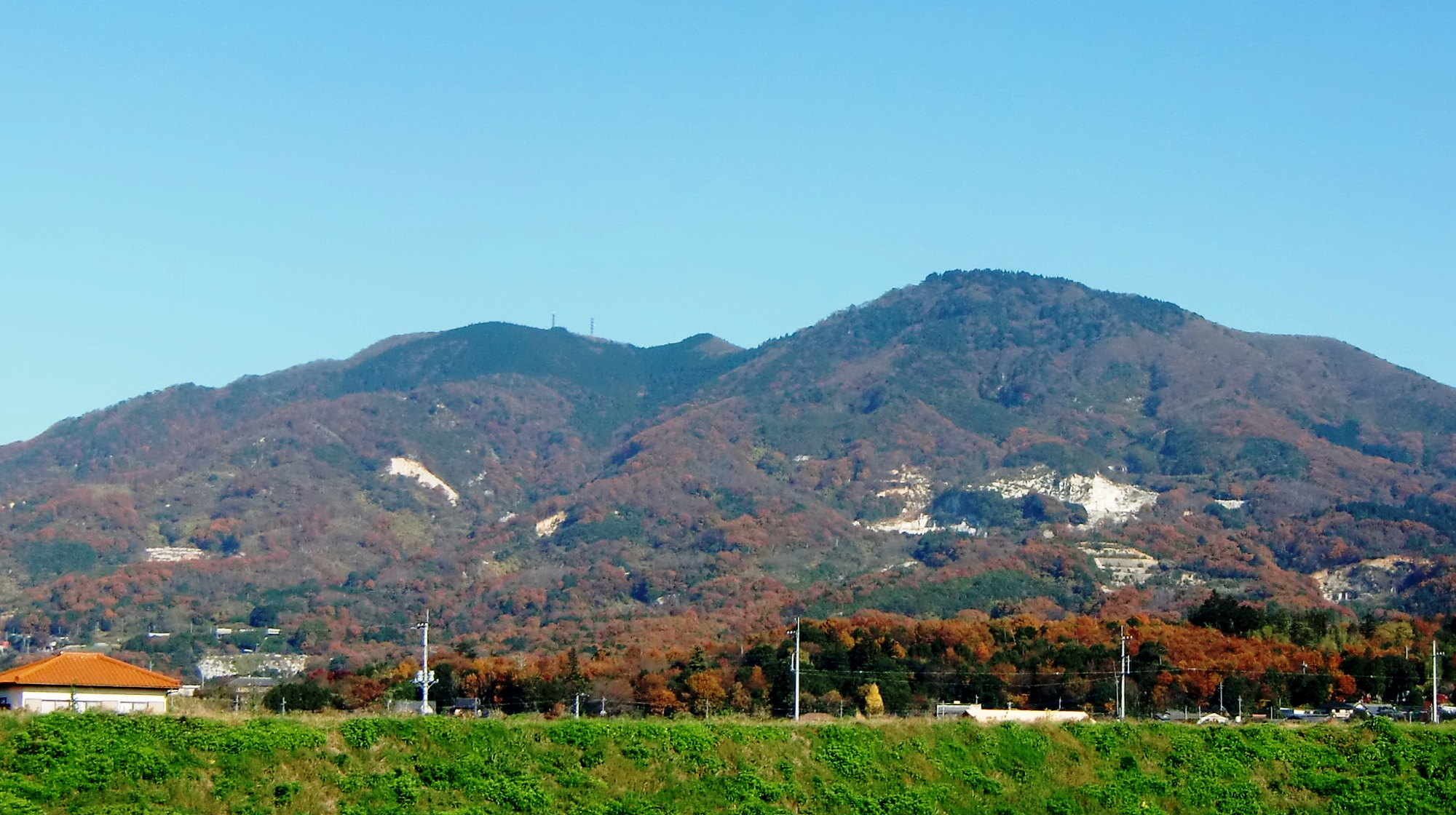 Mt.Tsubakuro;left and Mt.Kaba;right from Makabe, Sakuragawa city, Ibaraki prefecture, Japan.